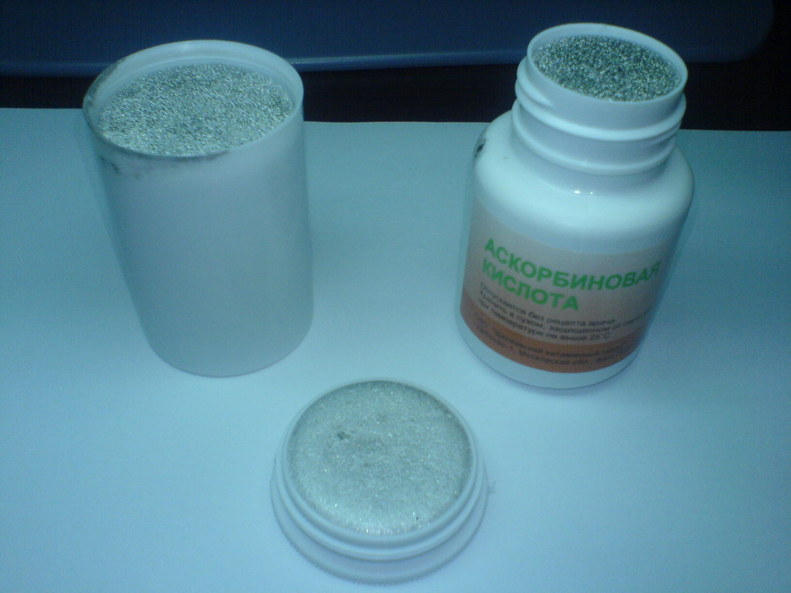 Сплав Вуда, залитый в полиэтиленовые емкости.